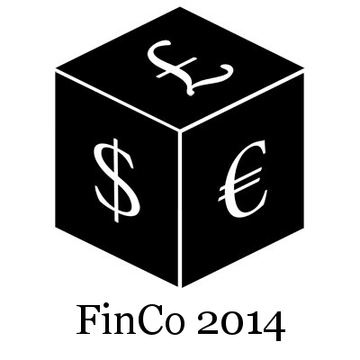 FinCo 2014 logo